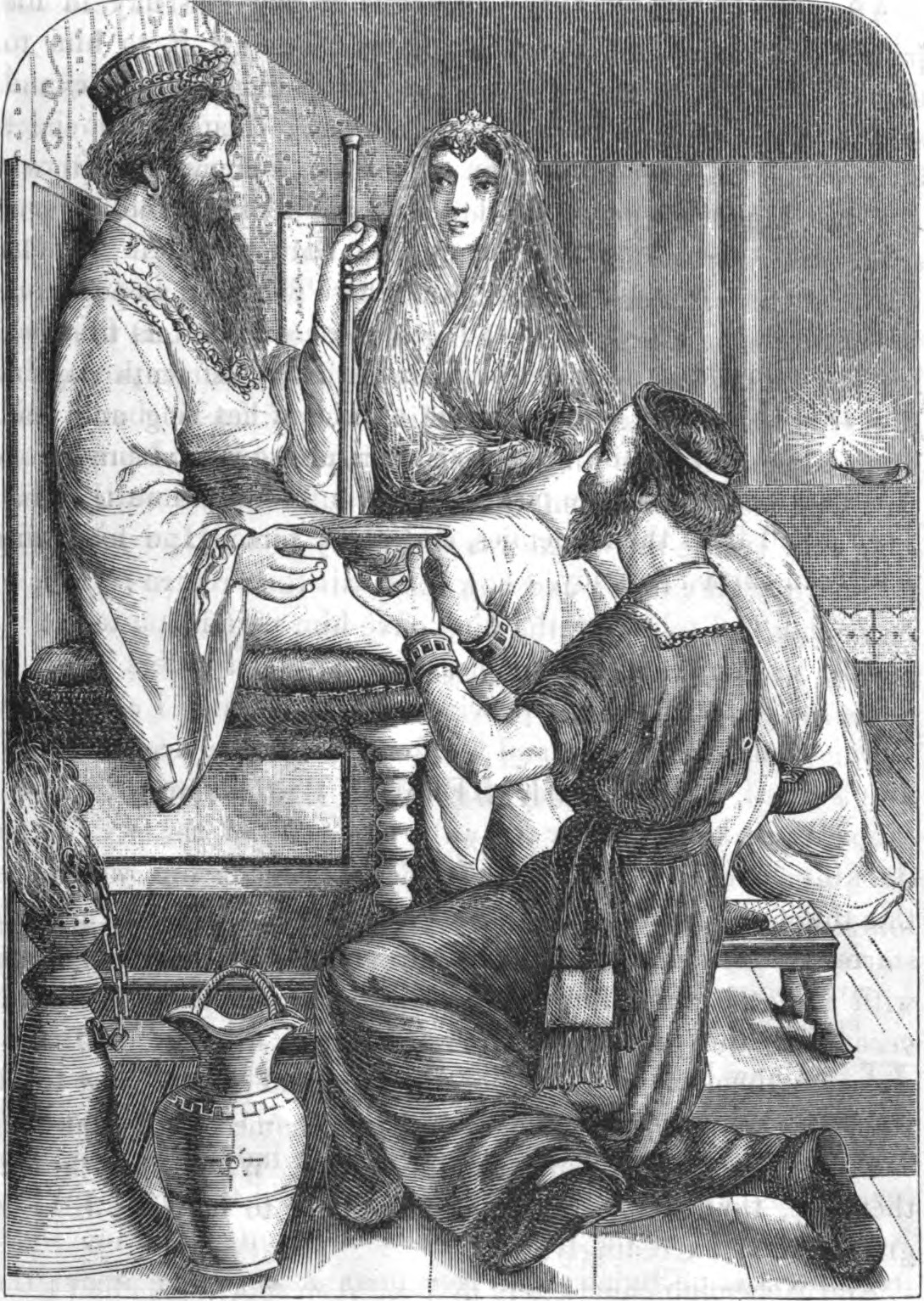 Nehemiah the cup bearer.